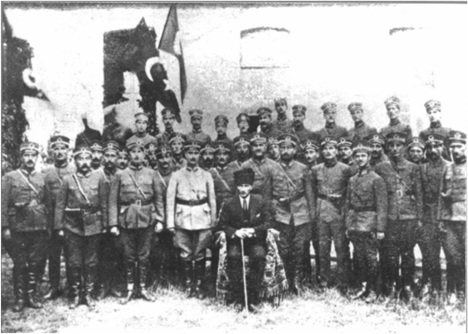 Kemal Atatürk (or alternatively written as Kamâl Atatürk, Mustafa Kemal Pasha until 1934, commonly referred to as Mustafa Kemal Atatürk; 1881 – 10 November 1938) was a Turkish field marshal, revolutionary statesman, author, and the founding father of the Republic of Turkey, serving as its first President from 1923 until his death in 1938. He undertook sweeping progressive reforms, which modernized Turkey into a secular, industrial nation. Ideologically a secularist and nationalist, his policies and theories became known as Kemalism. Due to his military and political accomplishments, Atatürk is regarded as one of the most important political leaders of the 20th century.